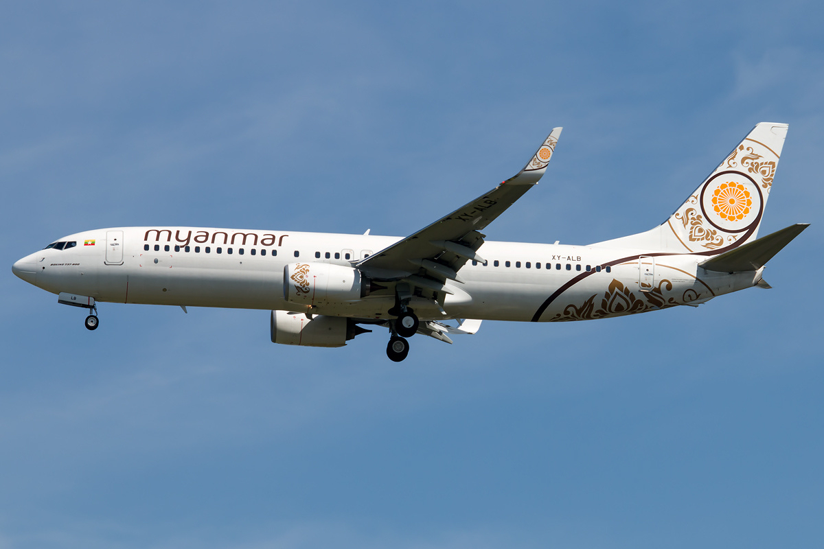 Myanmar National Airlines Boeing 737-800 on finals at Beijing Capital